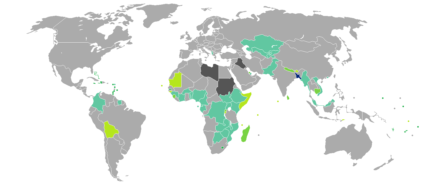 Visa requirements for Bangladeshi citizens Bangladesh Visa free access Visa on arrival eVisa Visa available both on arrival or online Visa required